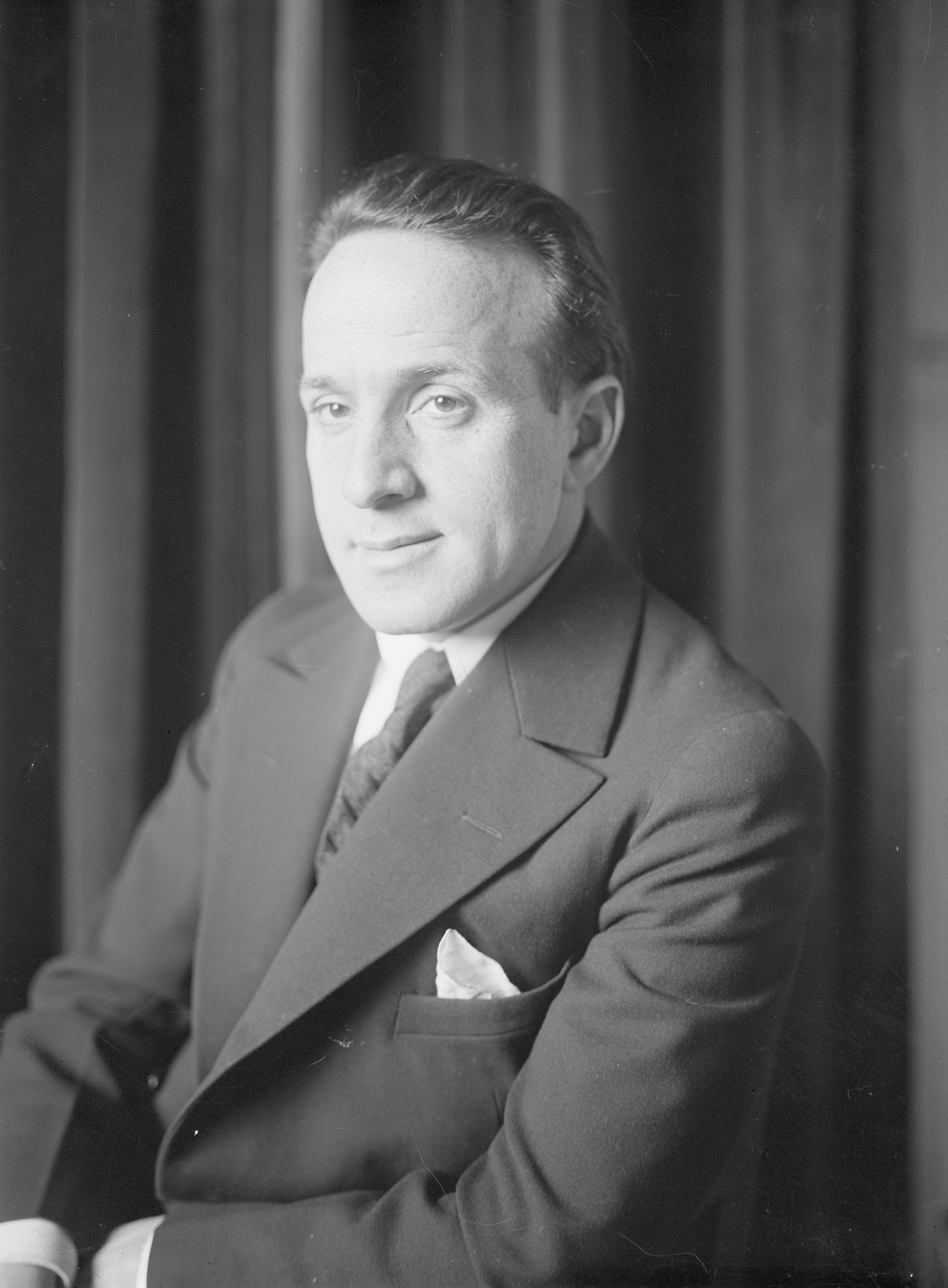 Photoportrait of orchestra leader and composer Nathaniel Shilkret.